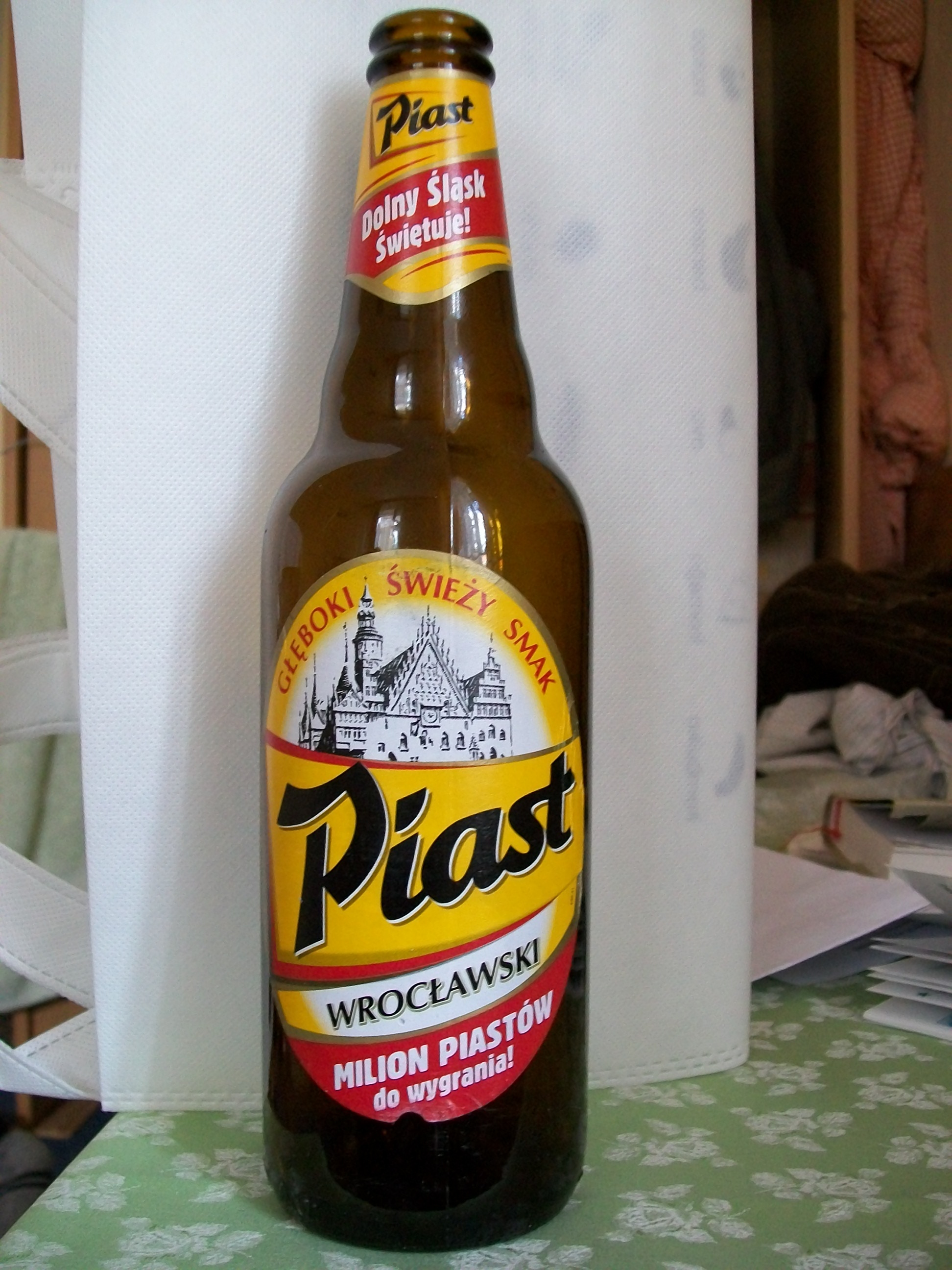 Polish beer piwo Piast